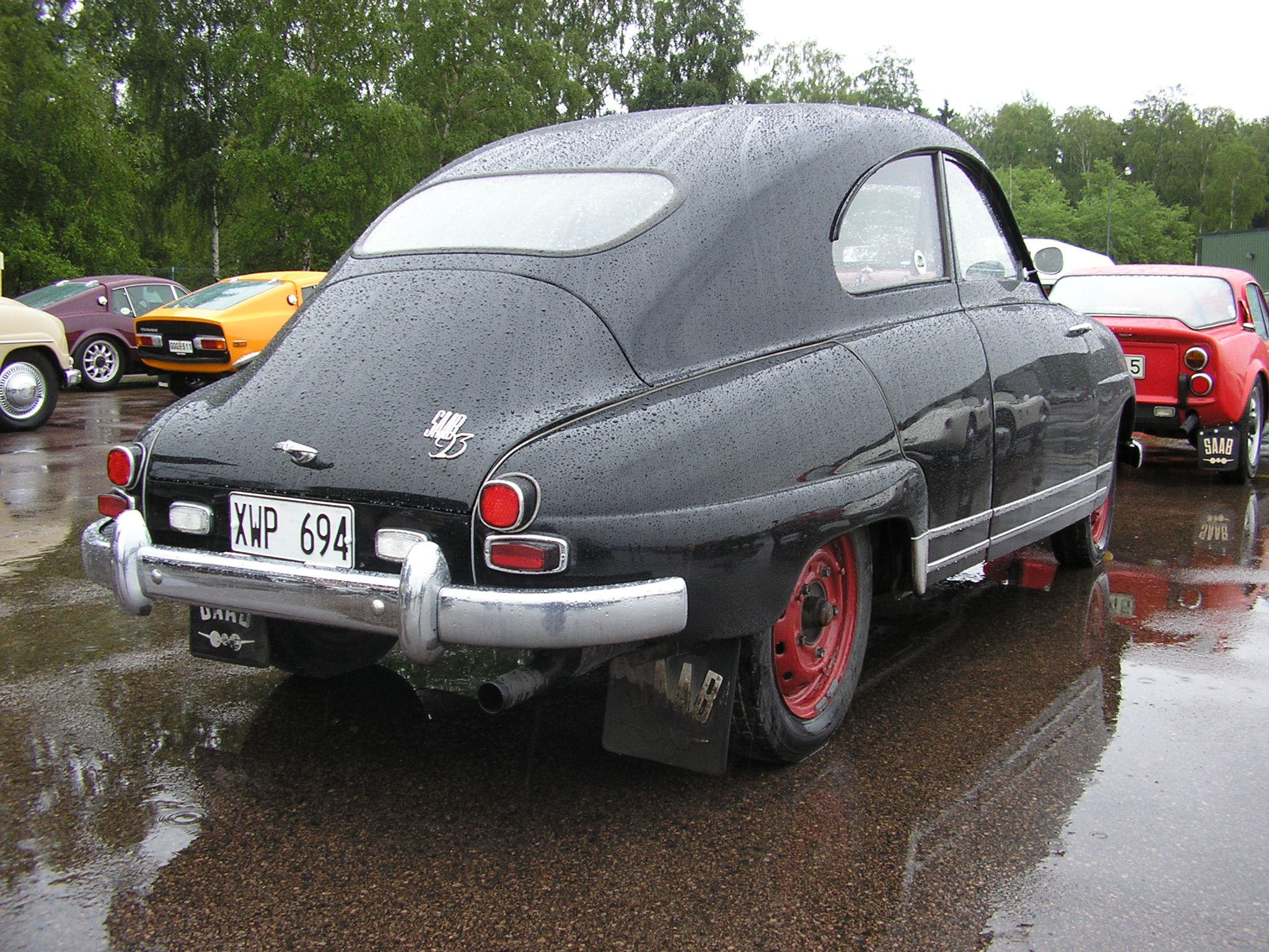 A 1959 SAAB 93B 750GT at the International SAAB Club Meeting 2006.